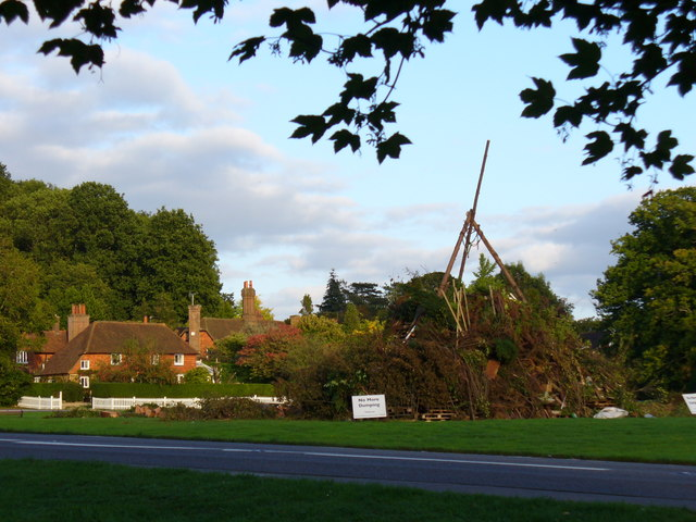 Chiddingfold Bonfire Under Construction. Surrey and Sussex villages are famous locally for their bonfire nights. Most famous of all is the town of Lewes which also has great processions.